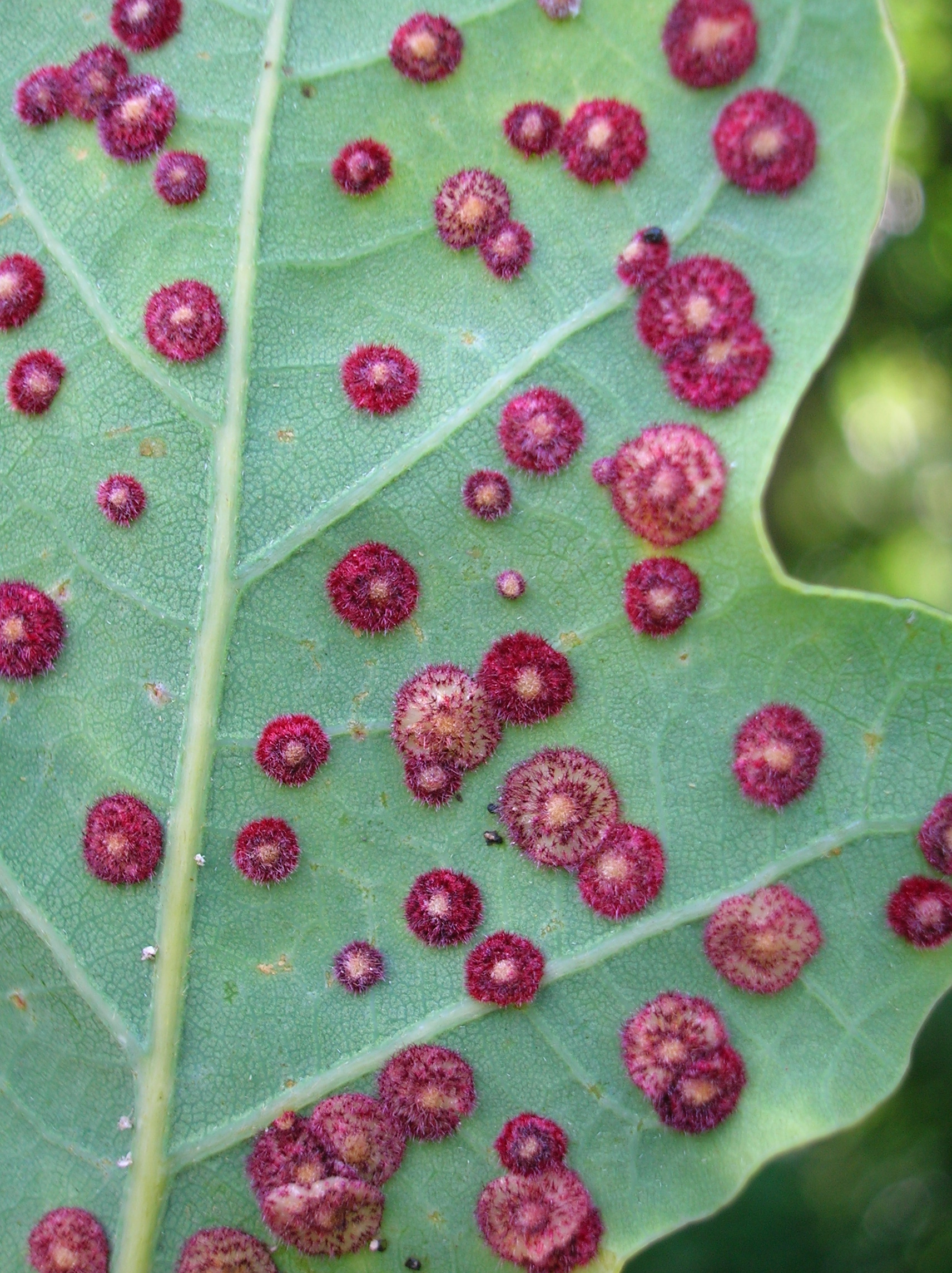 Neuroterus quercusbaccarum on an oak leaf causing the Common Spangle gall. Lynn Glen, Dalry, Scotland